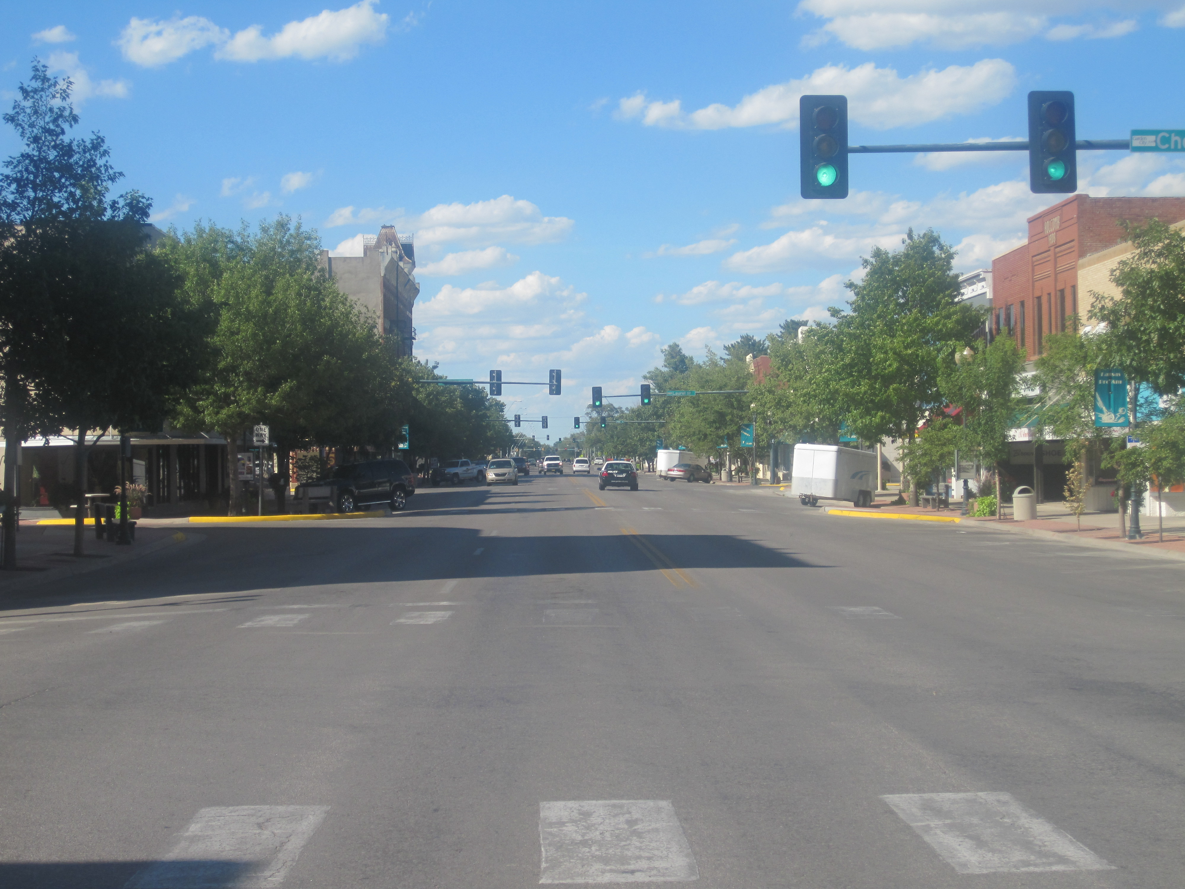 I took photo with Canon camera in Garden City, KS.